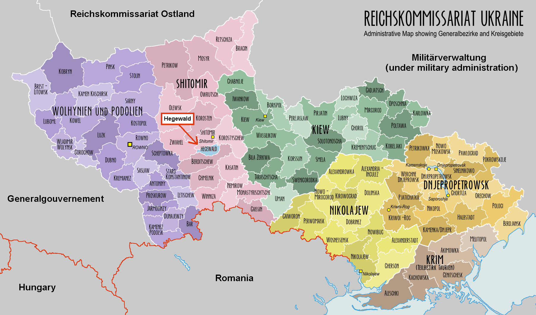 An administrative map of the Reichskommissariat Ukraine. Shows the boundaries of the Generalbezirke and Kreisgebiete as of September 1943.